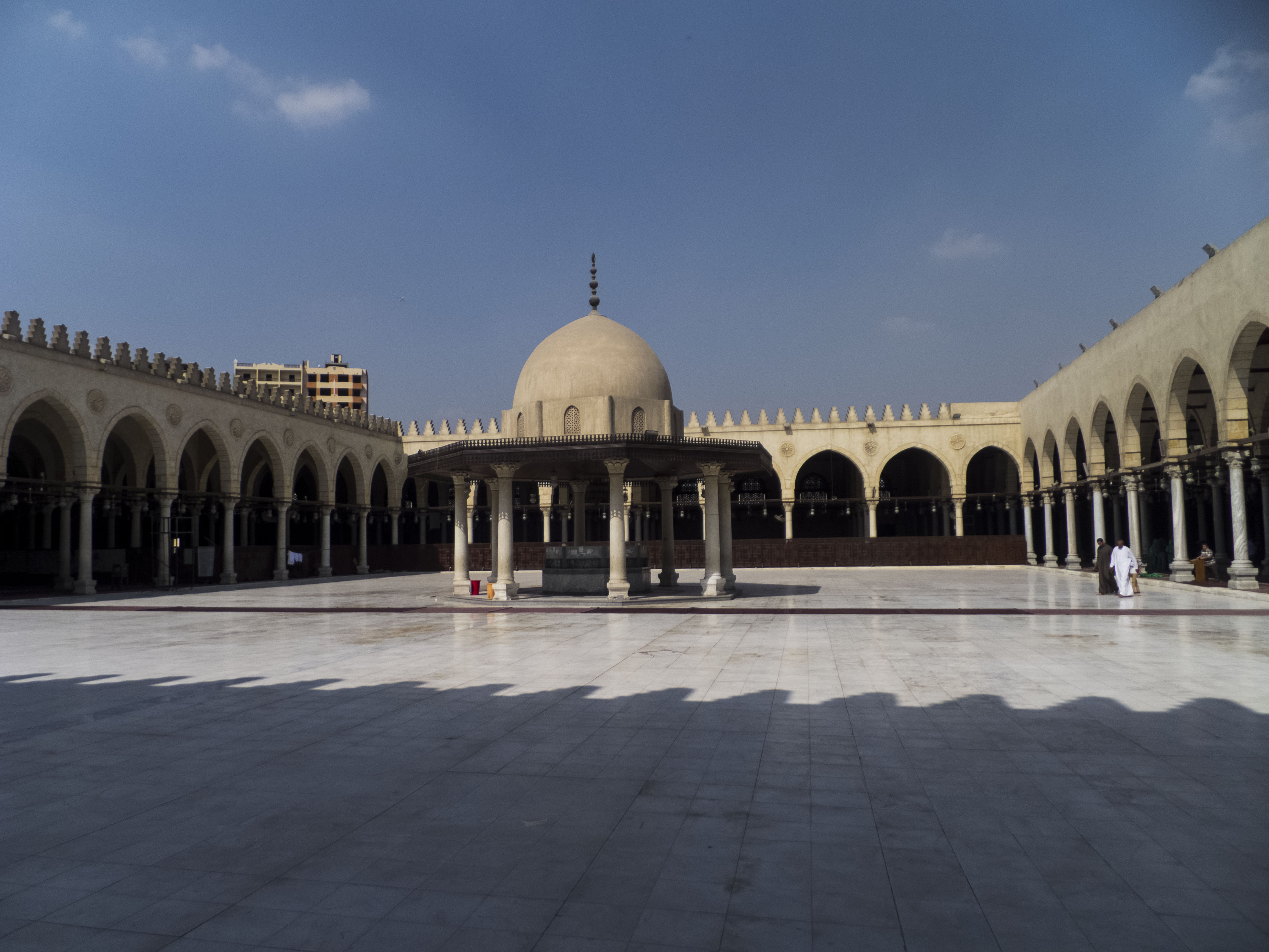 Wuḍūʾ taps in the court of Amr ibn al-‘As Mosque, old Cairo, Egypt.